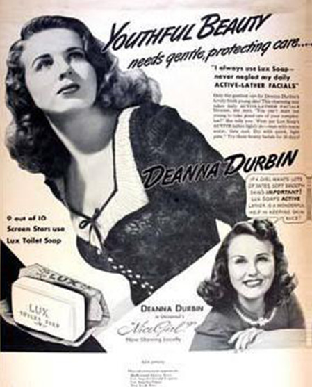 Lux - Romancing the consumer